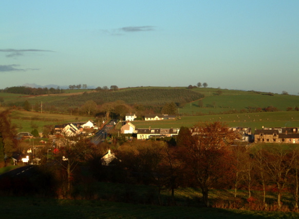 Rowanburn Village. Once a coal mining village. Photo taken from Priory Hill.